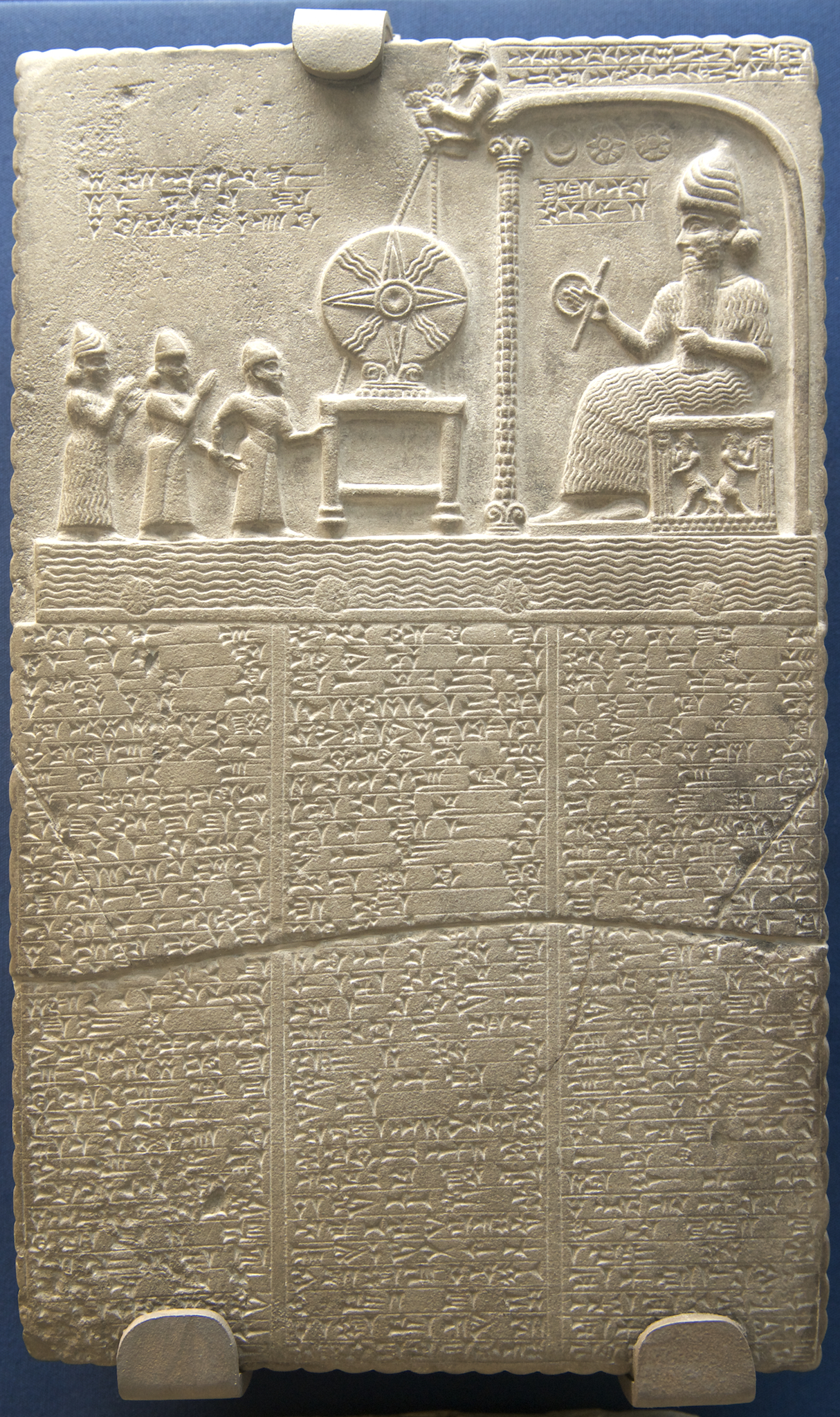 Photo of the Tablet of Shamash